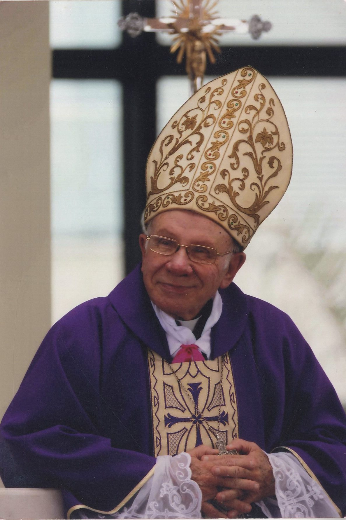 RafaelLlano